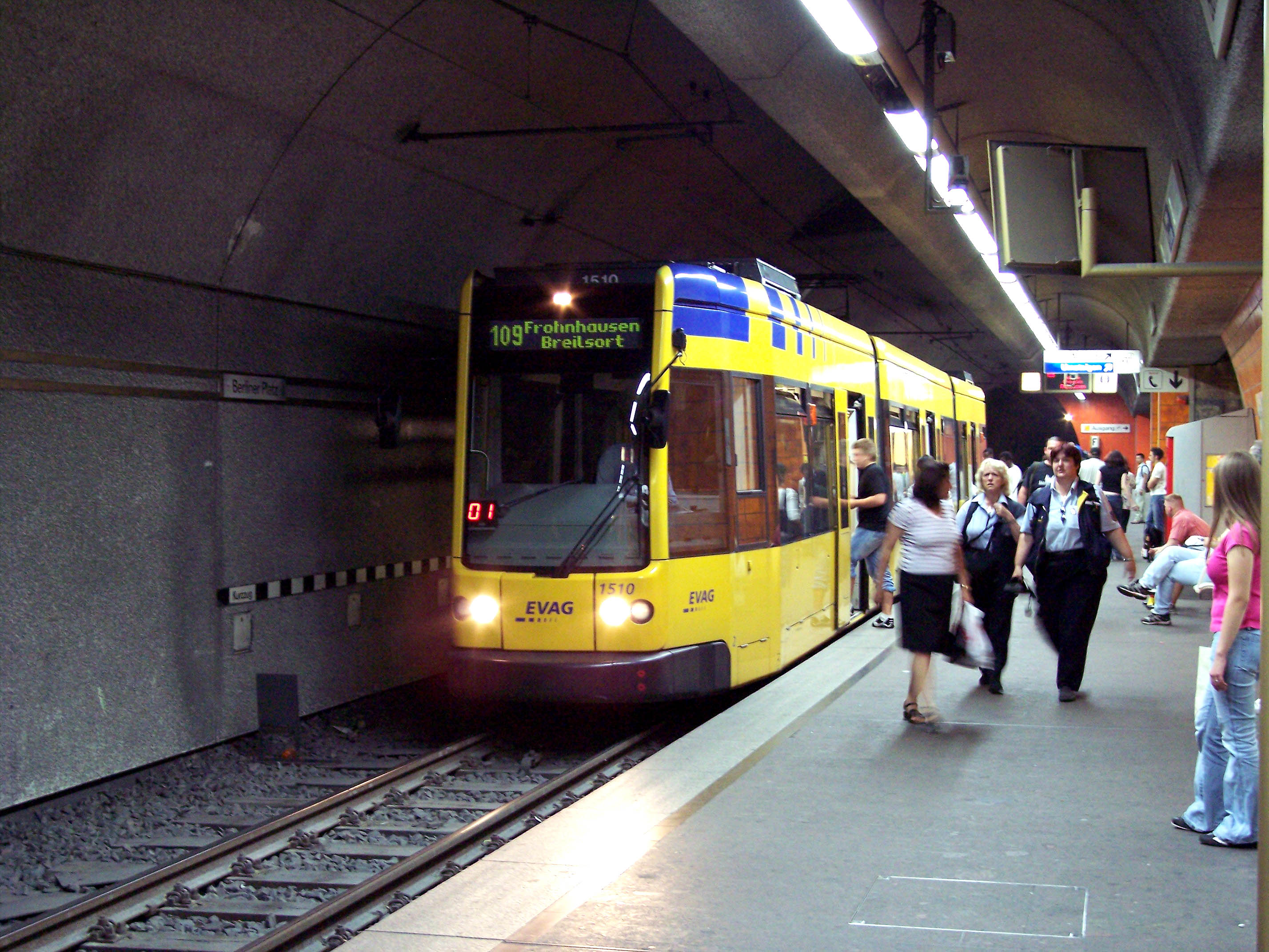 On the Essen, Germany tram system, Berliner Platz station is unique in having its metre gauge tram platforms on a lower level than the standard gauge light rail platforms. Bombardier-built M8D-NF number 1510 was pictured with a 109 service to Frohnhausen.